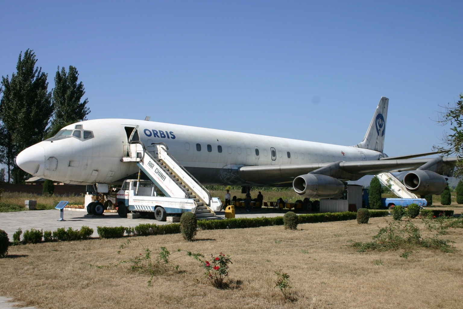 At Beijing Xiaotangshanzhen Aviation Museum